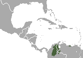 Brown Spider Monkey (Ateles hybridus) range